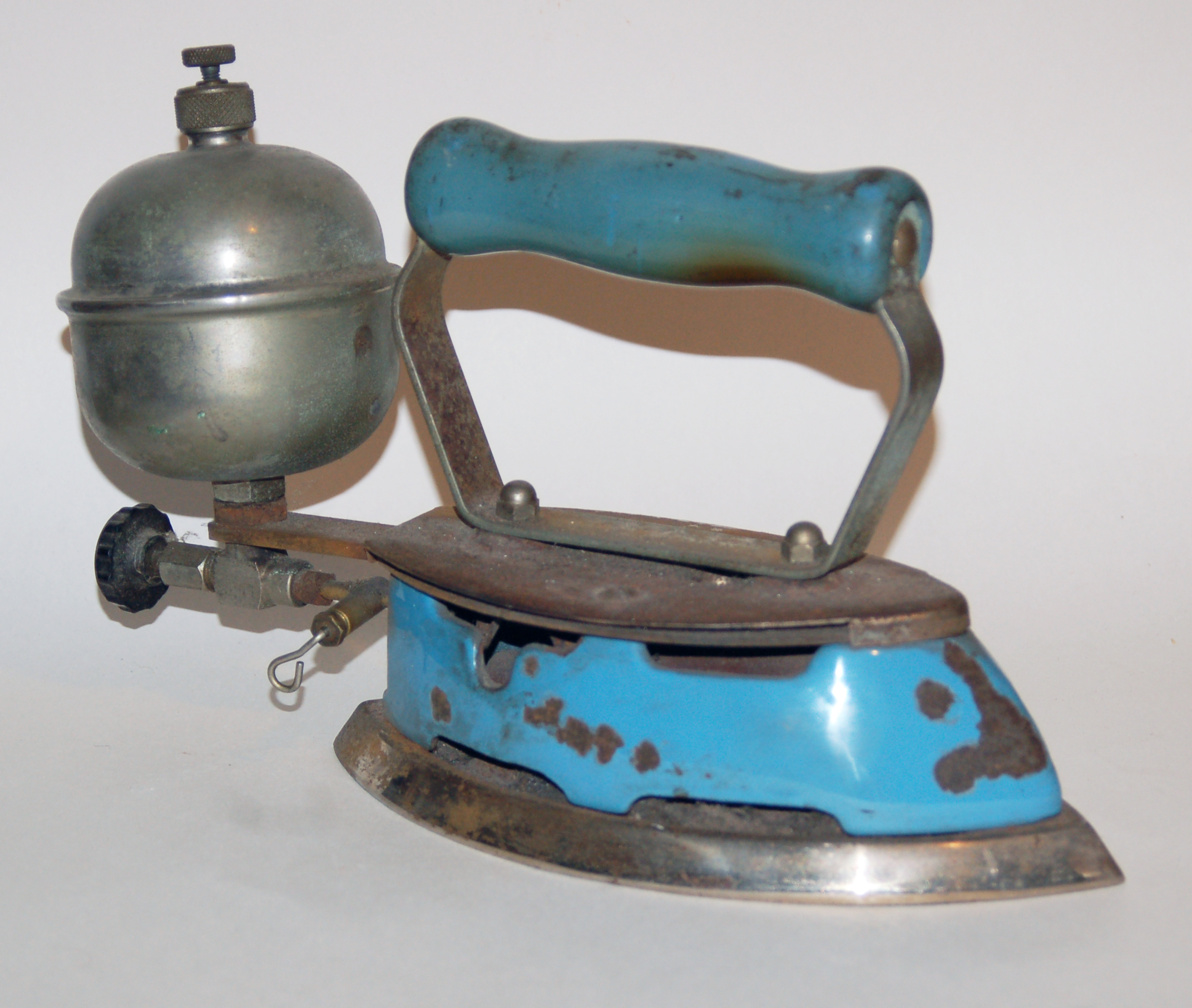 1930s Coleman's gas iron